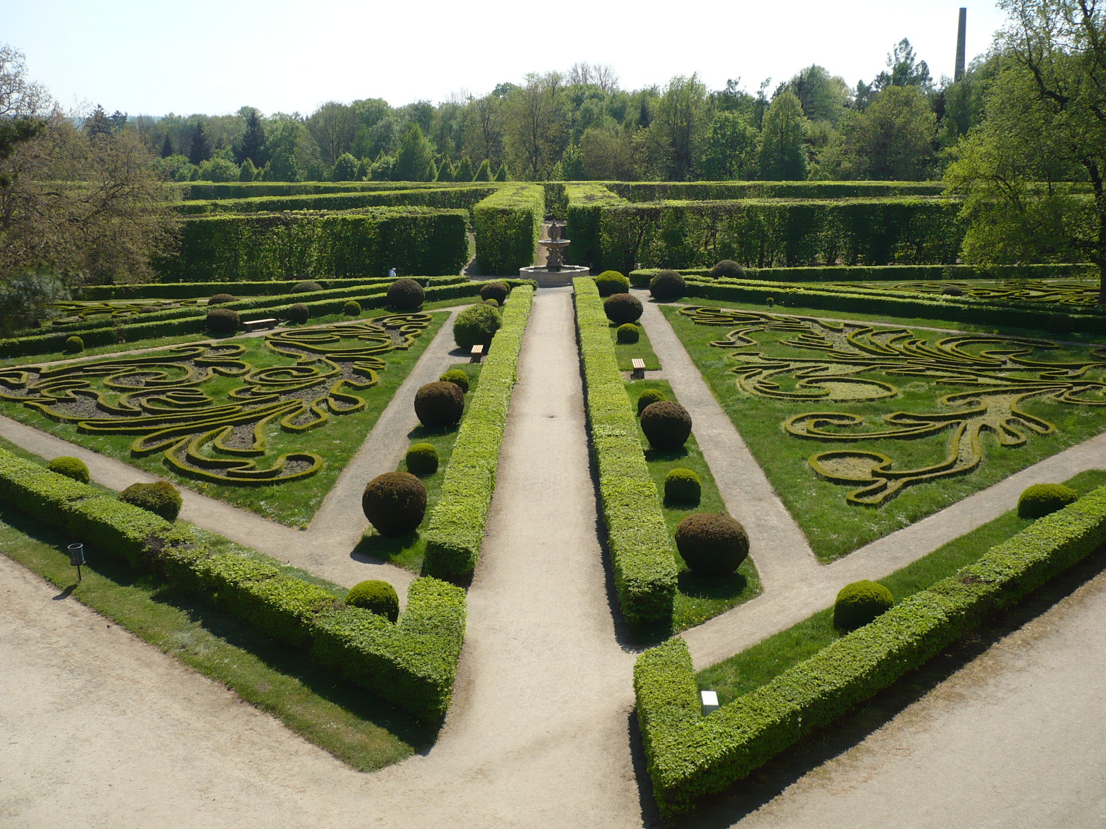 Kromeriz - Kromeriz – Flower garden